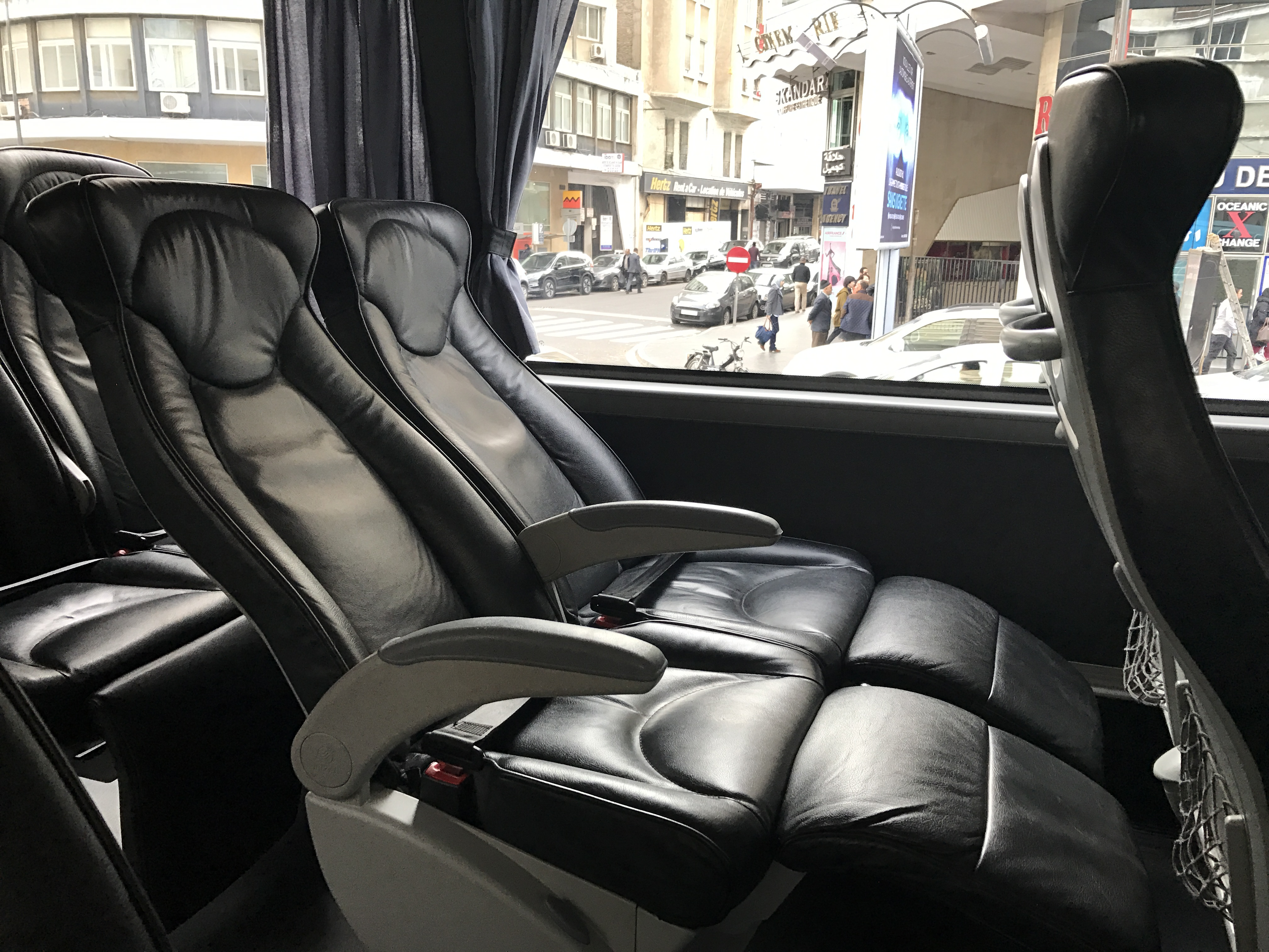 Seats in CTM Premium